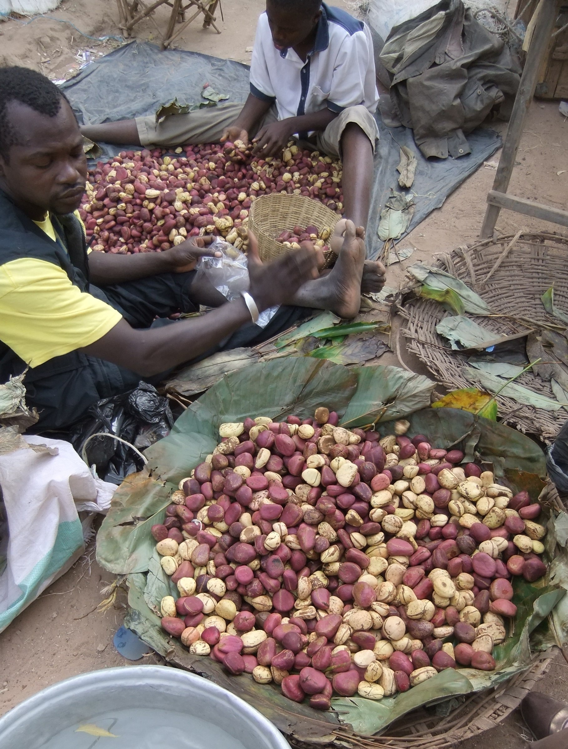 Djenne, Mali This is an image of "African people at work" from Mali